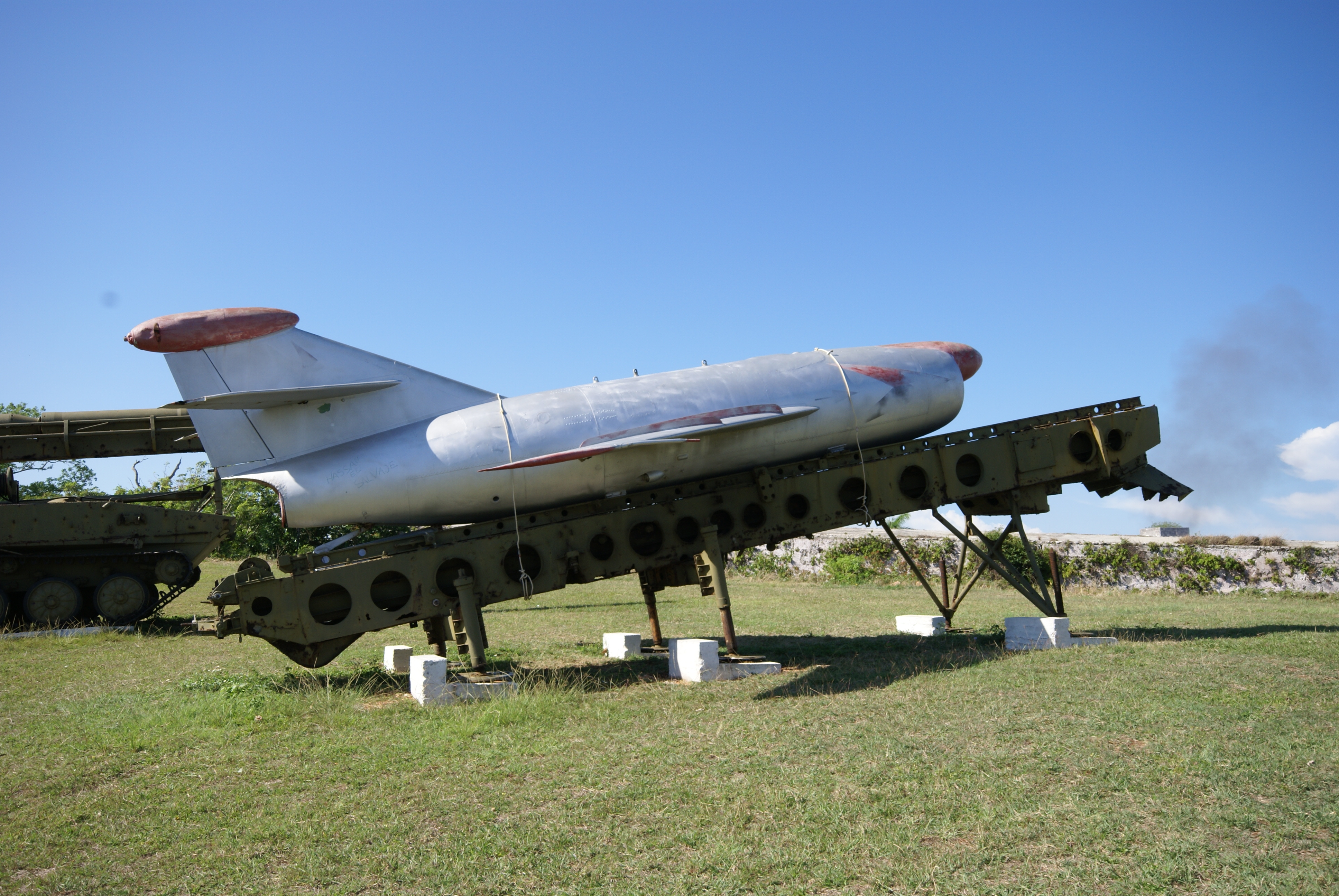 The FKR (фронтовая крылатая ракета or Front Cruise Missile) is a Mobile Ground Launched Cruise Missile (GLCM), based on the KS-7 Komet. At the Havana Exhibition, only the Guide Rail is present, however, the Guide Rail has been mounted on a Ramp on a 4-Wheel Trailer. It had a range of approximately 125 km and an accuracy of 25 meter [?].